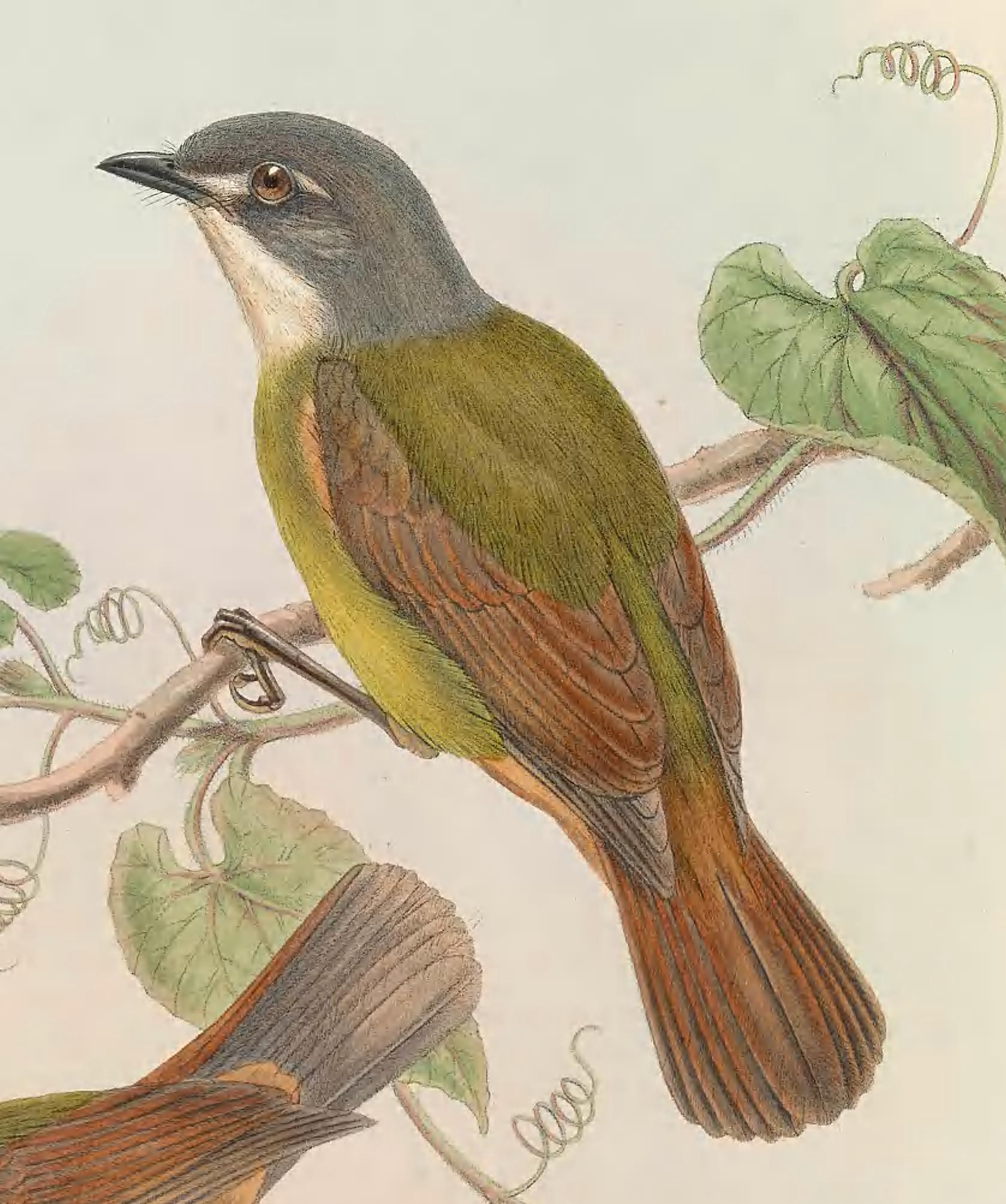 Pachycephalopsis hattamensis in The birds of New Guinea and the adjacent Papuan islands, including many new species recently discovered in Australia. v.3 (Plate 25).